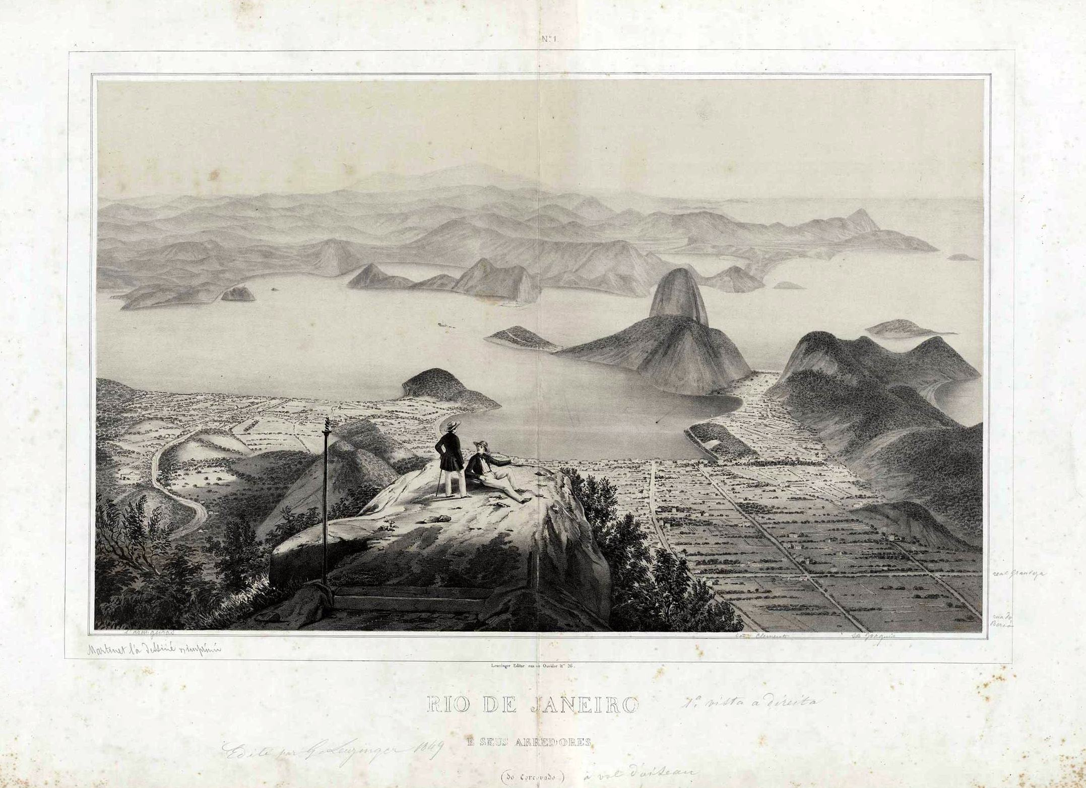 Rio de Janeiro and its surroundings seen from Corcovado.